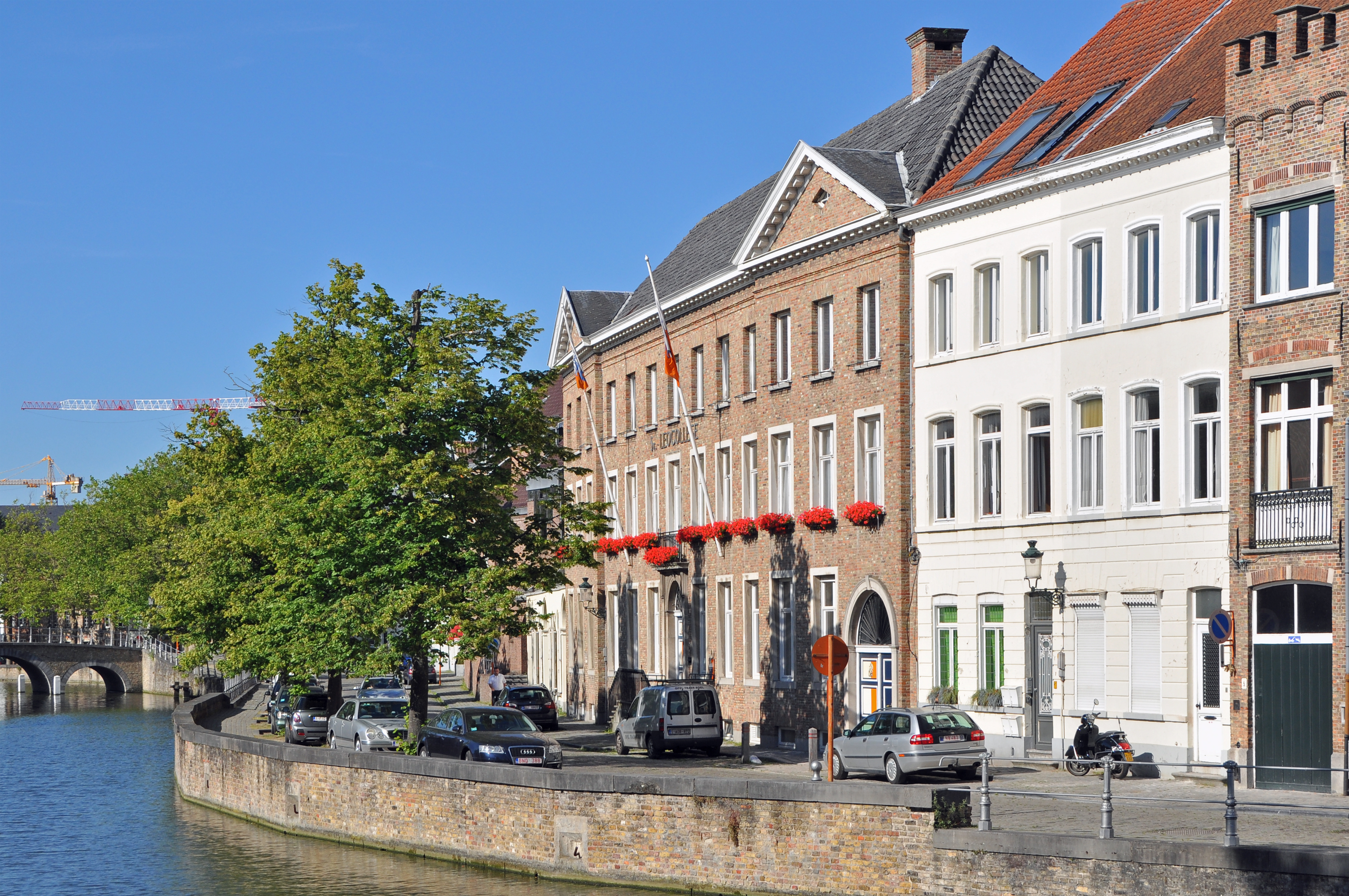 Bruges (Belgium): Potterierei